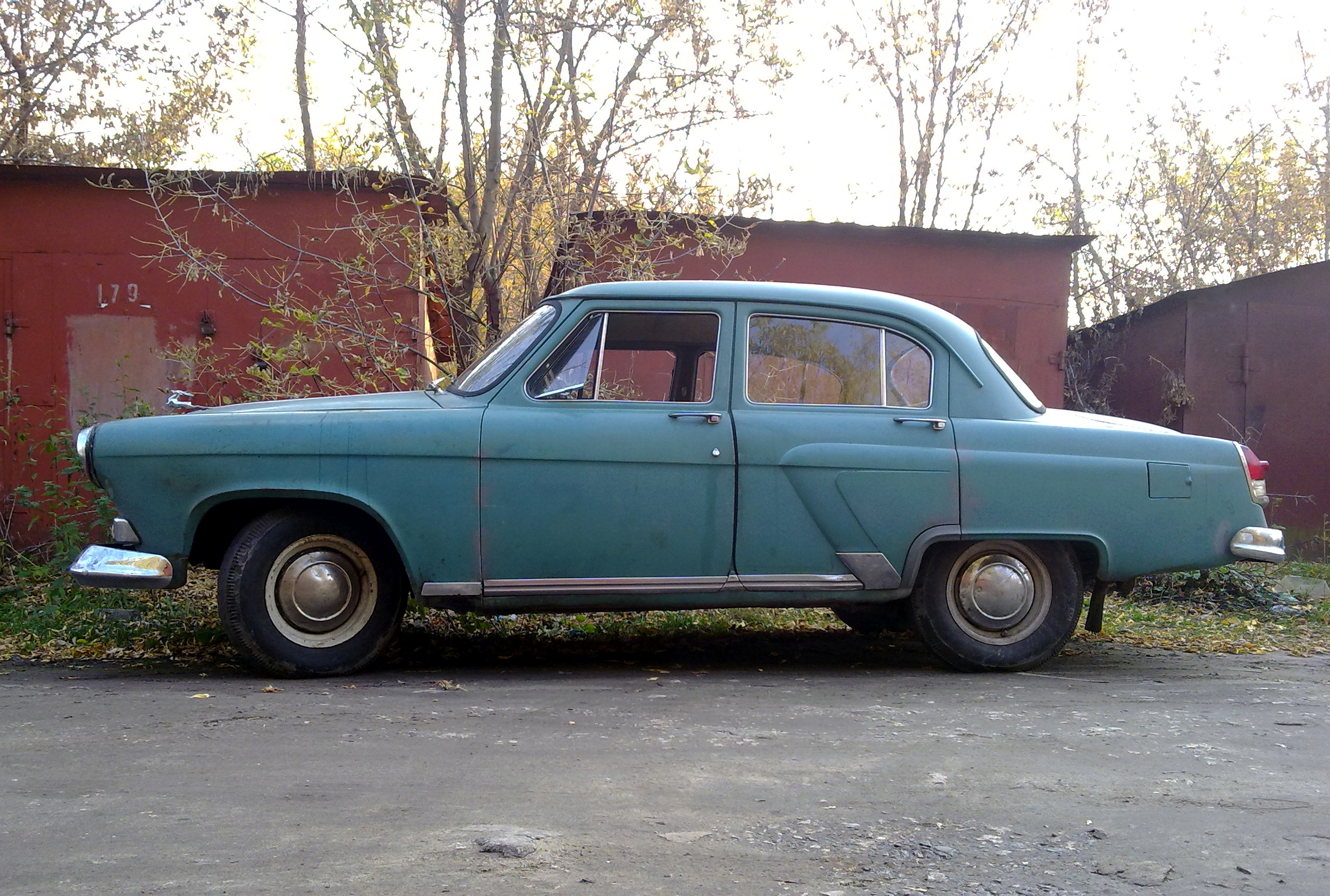 M-21I Volga Soviet car, 1959 built (not original later rear lights)